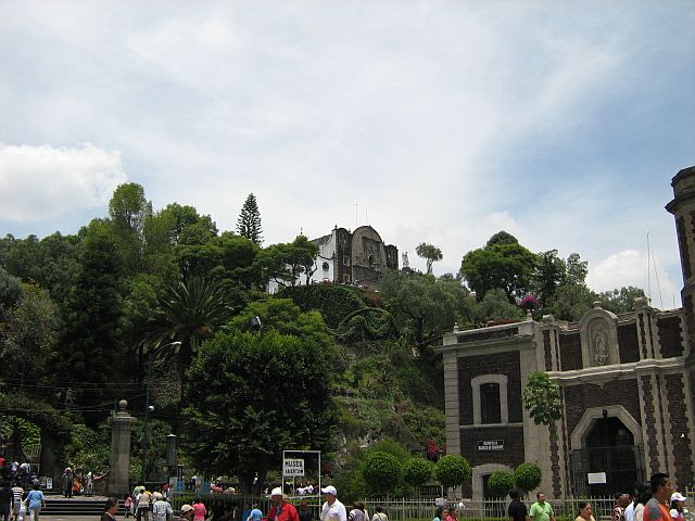 Shrine of Cerrito at Basilica of Our Lady of Guadalupe in Tepeyac, Mexico City.